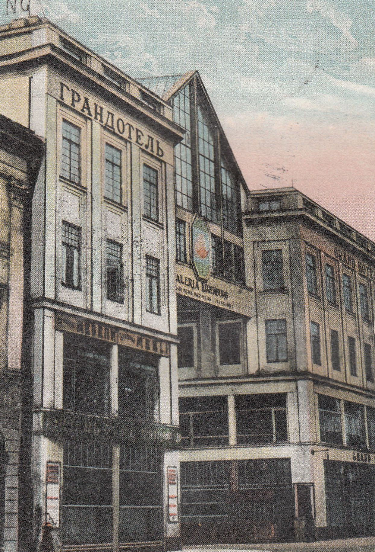 Galeria Luxenburga in Warsaw